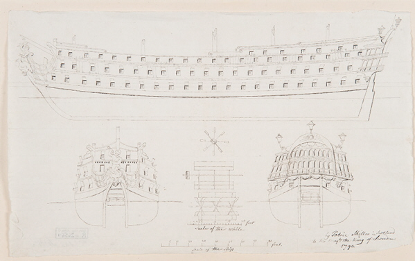 Drawing of the vessel Sjöspöket or The Sea Ghost.